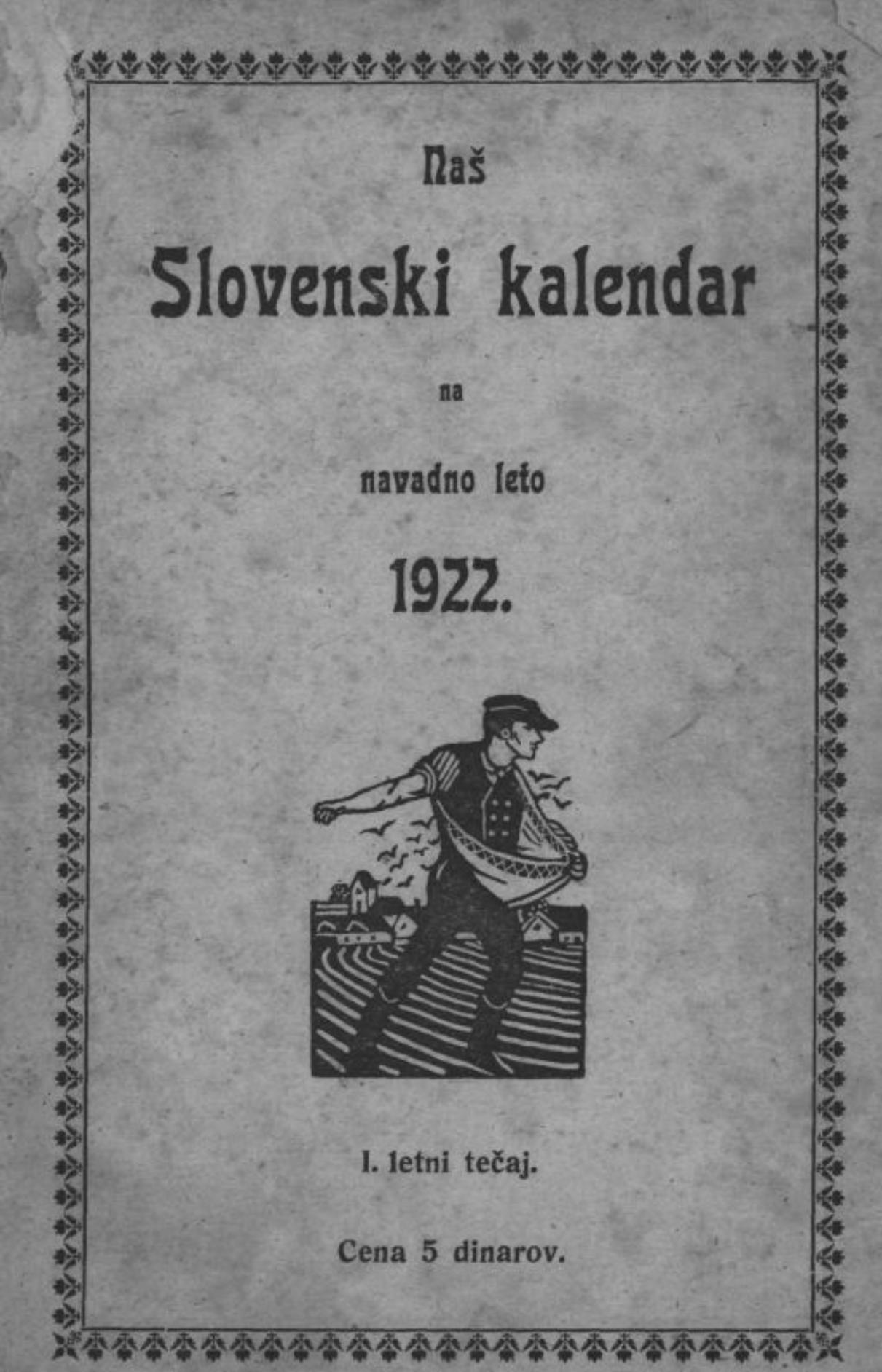 The "descendant" of the the Dober pajdás kalendárium in 1922. The Dober pajdás kalendárium (Fast friend calendar) was the propaganda of the Magyarization. The present editor the false Ferenc Talányi (born Ferenc Temlin) now endeavor to resculpture the Dober pajdás to the Slovene national calendar.